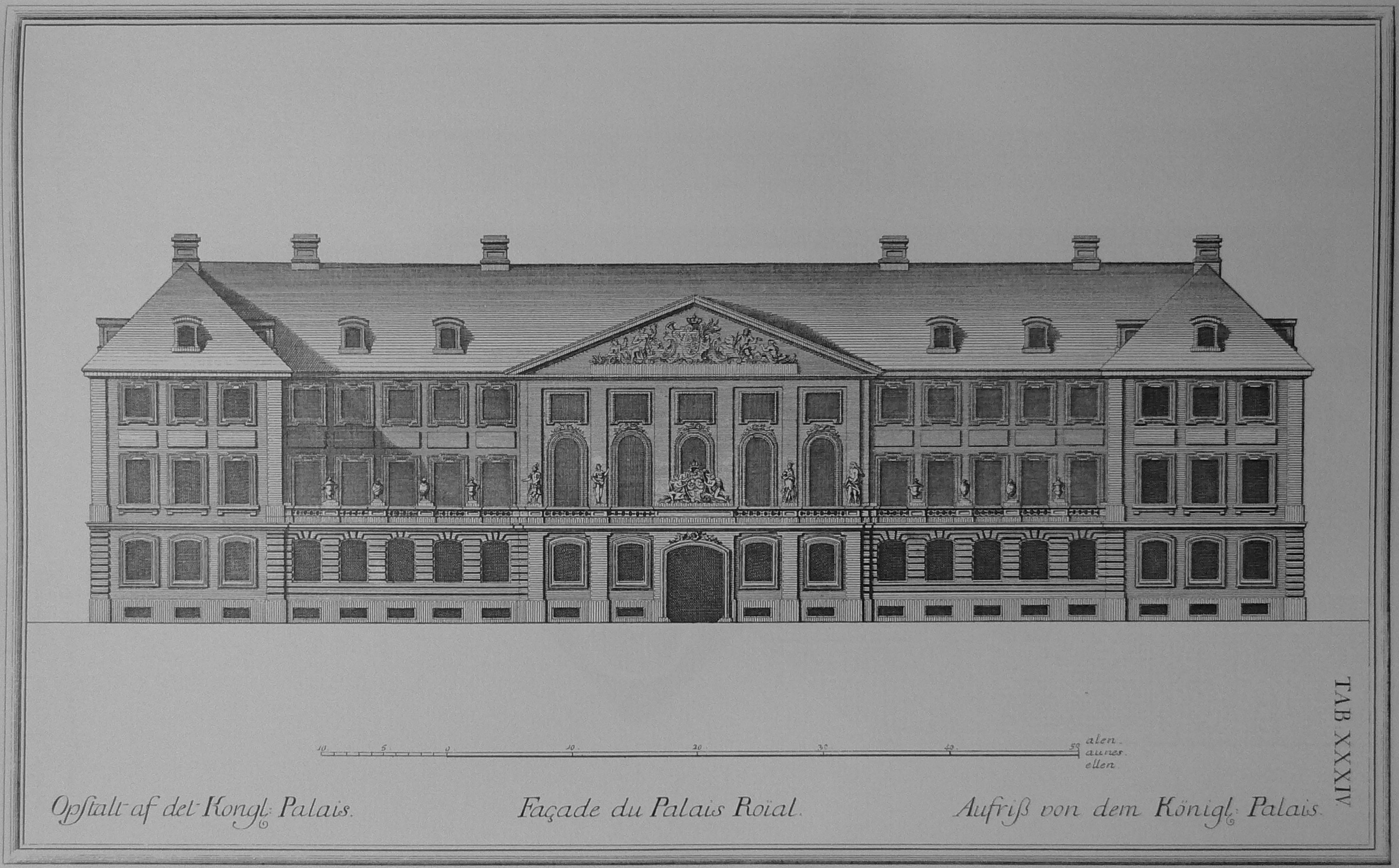 Elevation of the royal palace, Prinsens Palais, the current National Museum of Denmark.